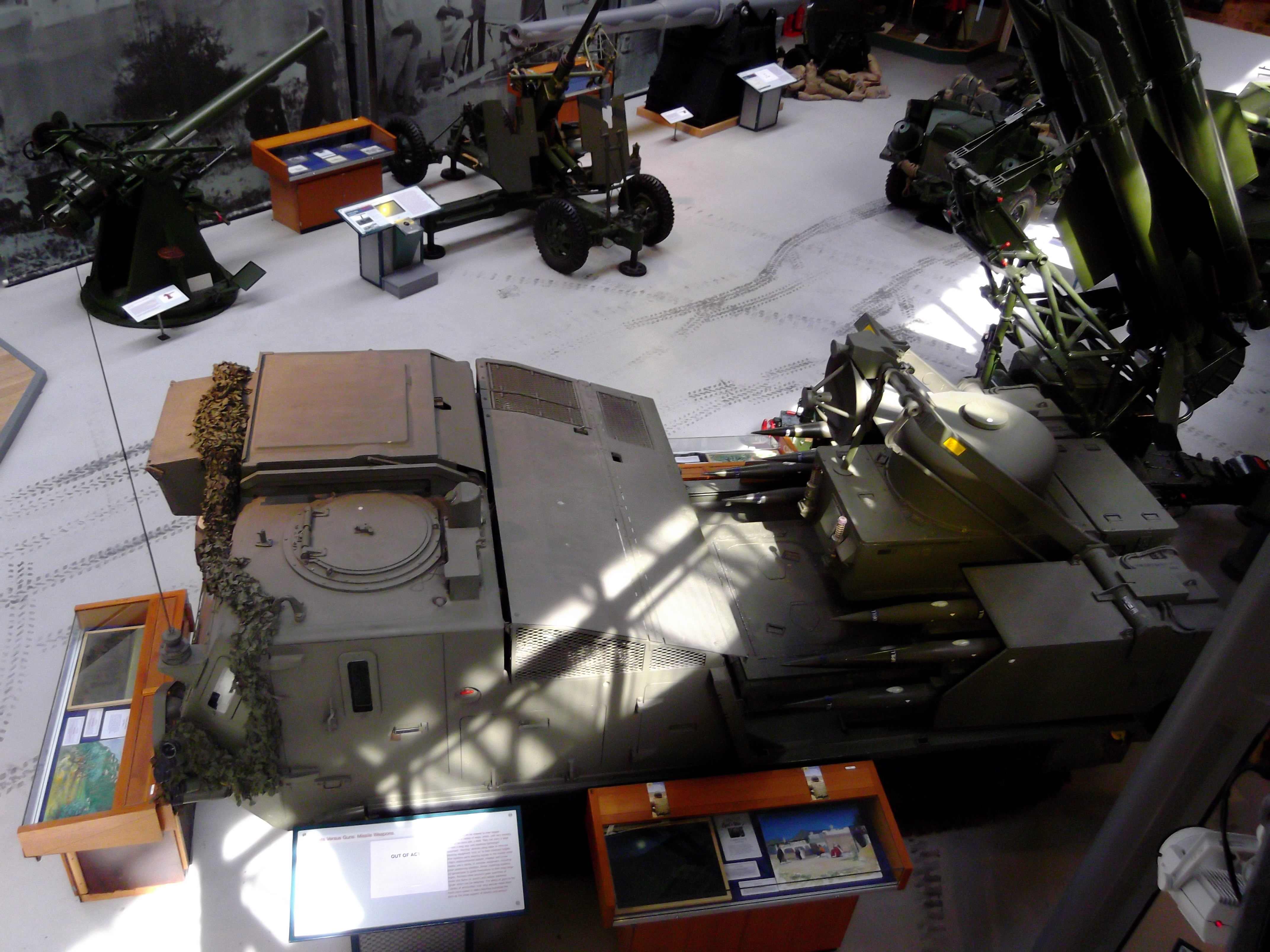 Royal Artillery Museum Woolwich London 241